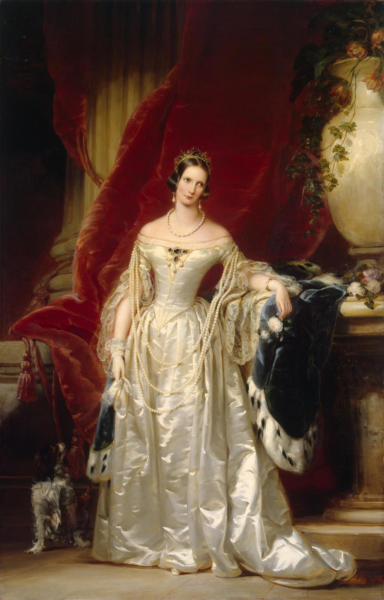 Empress Alexandra Feodorovna (Charlotte of Prussia)